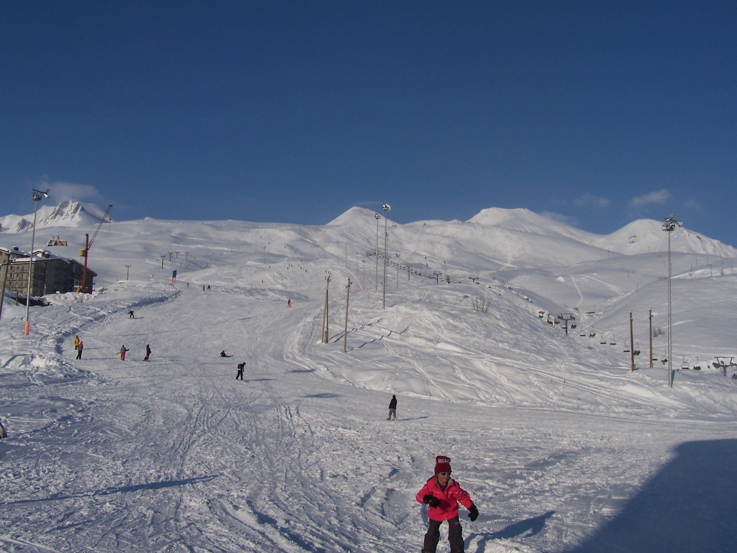 Gudauri